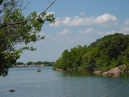 Inks Lake, Texas This picture was taken at Inks Lake by Enoch Lai on August 18, en:2003. This work has been released into the public domain by its author, Enoch Lai. This applies worldwide. In some countries this may not be legally possible; if so: Enoch Lai grants anyone the right to use this work for any purpose, without any conditions, unless such conditions are required by law.